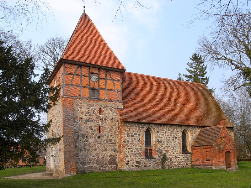 Church in Baumgarten, district Güstrow, Mecklenburg-Vorpommern, Germany